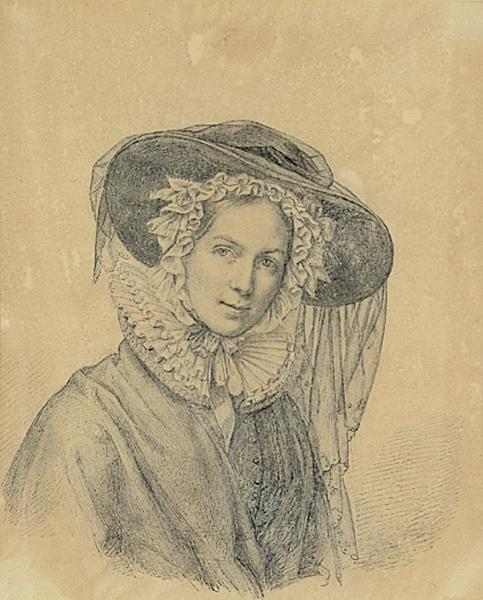 Portrait